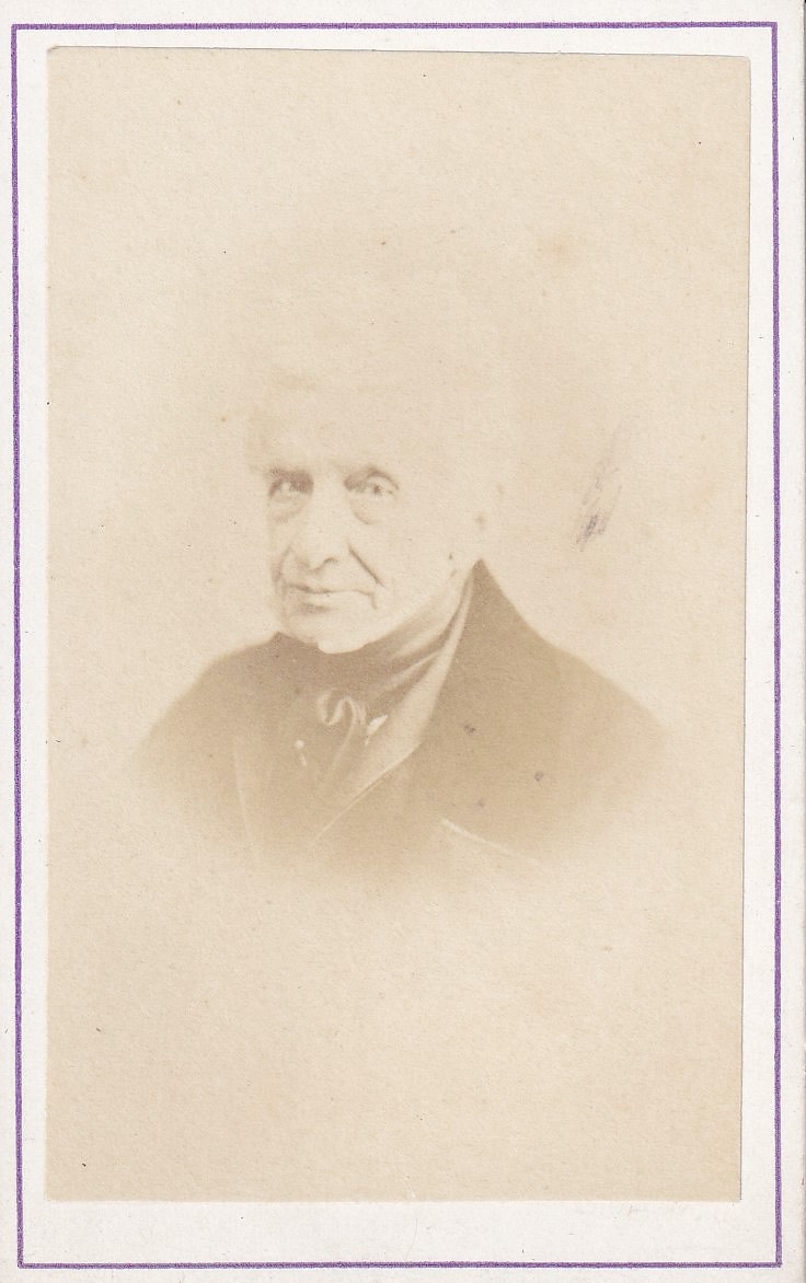 Jean-Baptiste VAN DIEVOET (1775-1862)